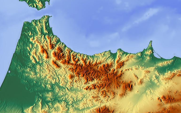 Rif mountains.